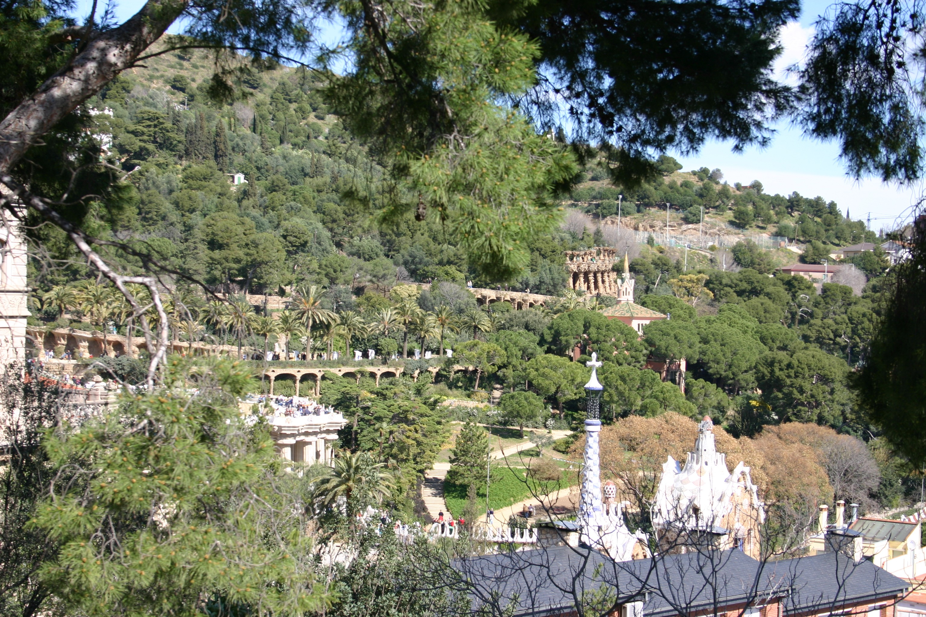 Overview of Park Güell